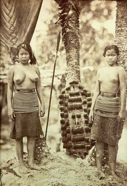 Photograph of Dyak women in Borneo (1860s) by Danish photographer Kristen Feilberg. Note the shield with human hair.